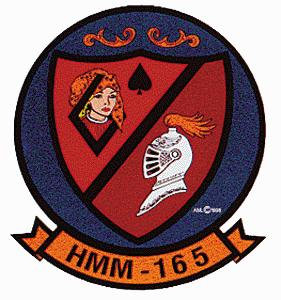 Old squadron insignia for a United States Marine Corps helicopter squadron - HMM-165